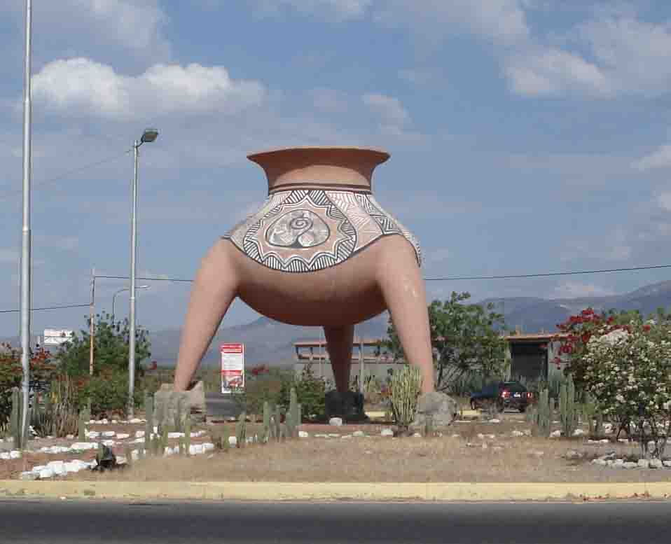 Picture of the tinaja in the Quíbor crossroad.